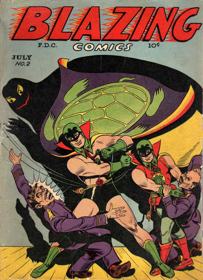 Blazing Comics, July 1944, No. 2 featuring The Green Turtle, by Chu F. Hing